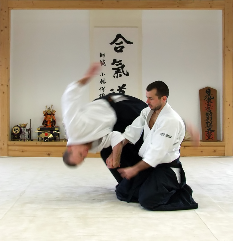 Shihōnage technique performed in "half-seated" position (hanmi hantachi waza). Uke taking forward breakfall (mae ukemi) to safely reach the ground. Photograph taken at Aikido Shinbukan Dojo, Esztergom, Hungary